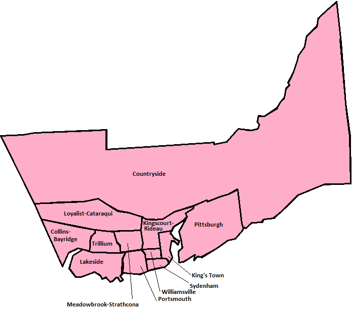 Map of Kingston, Ontario's 12 municipal districts, used since 2014.